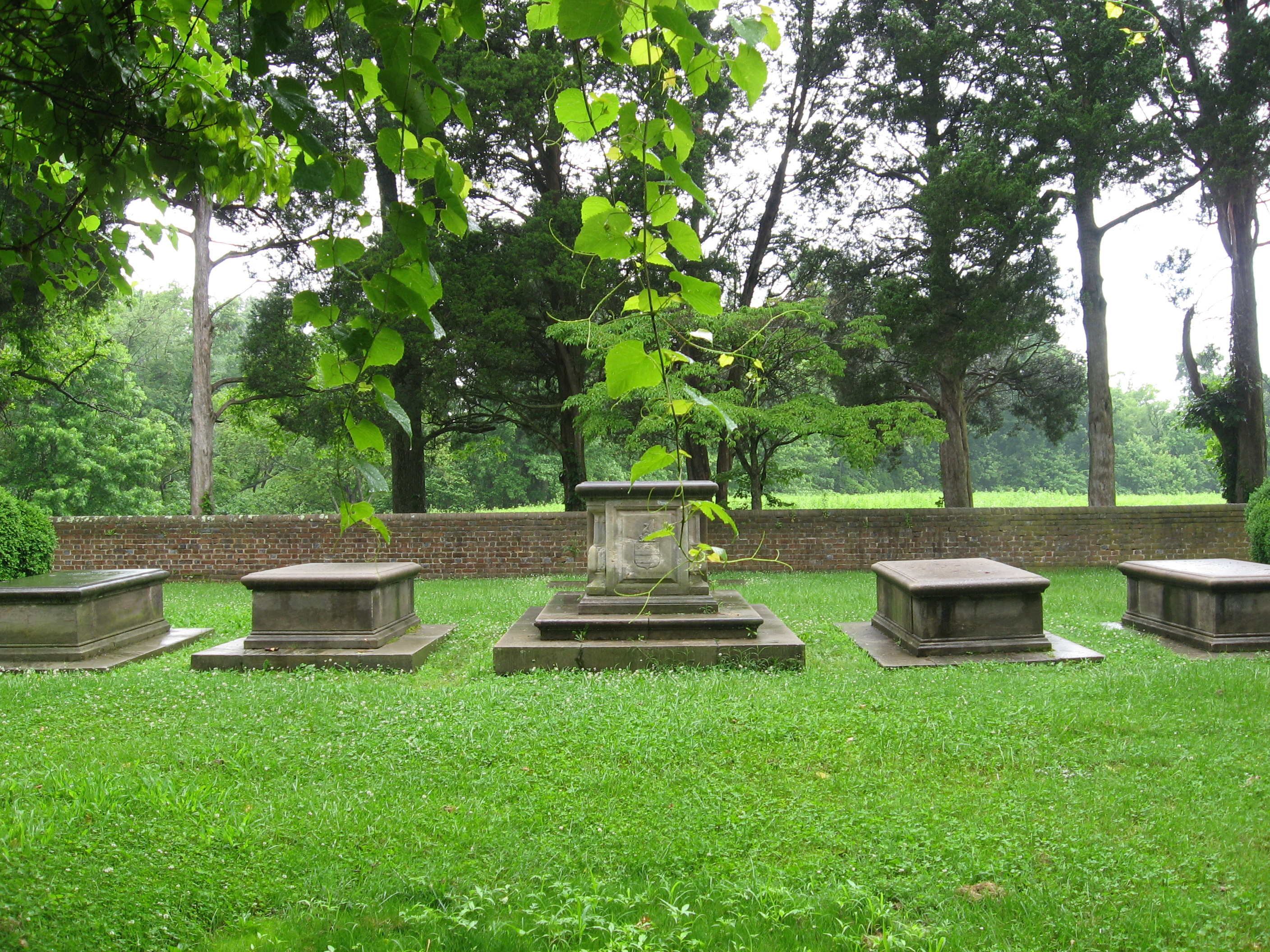 Cemetery at George Washington Birthplace National Monument, Virginia.